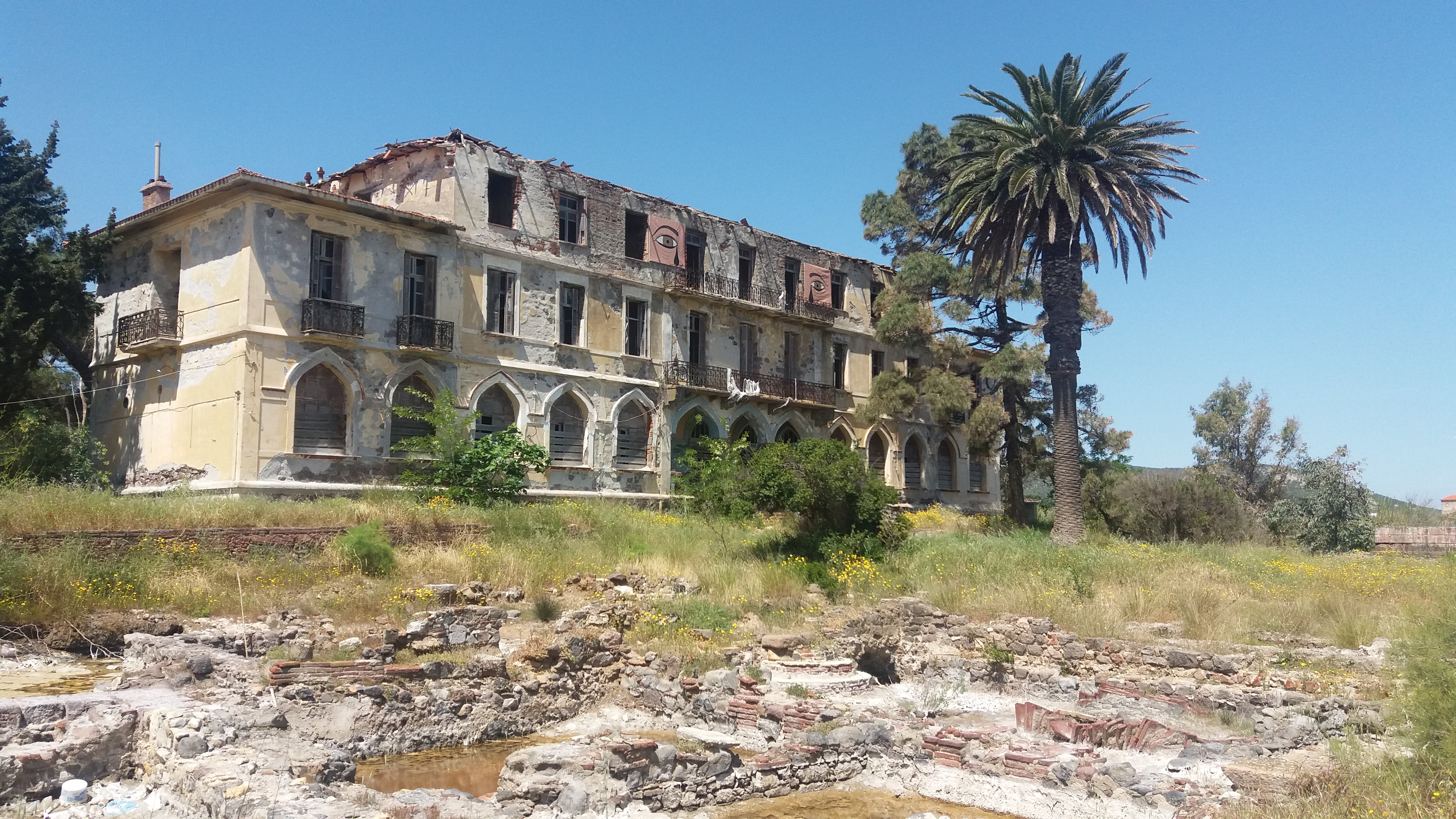 Sarlica Thermal Hotel, Thermi, Lesωos